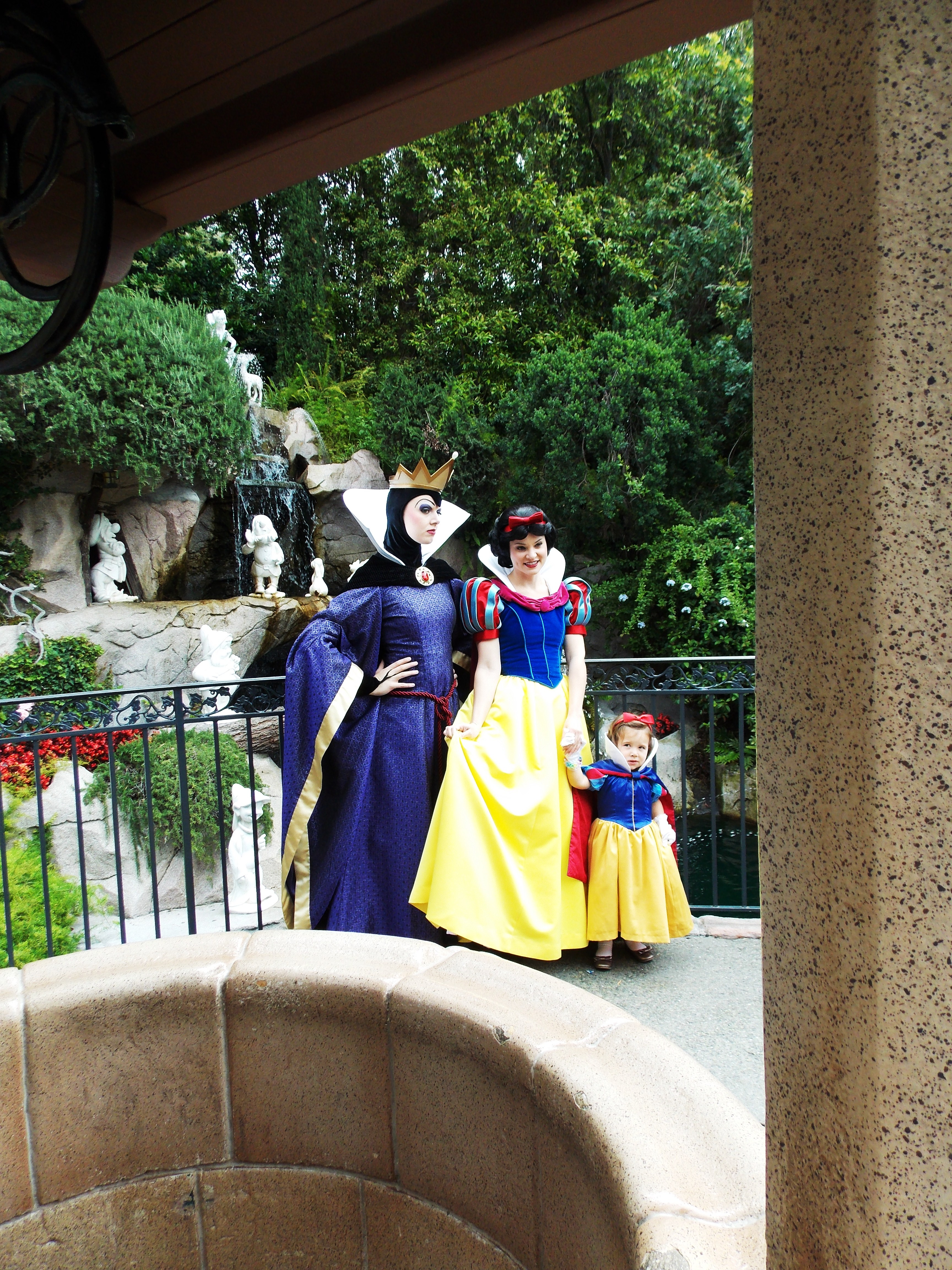 [no description]